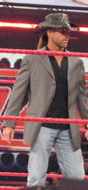 HBK on RAW